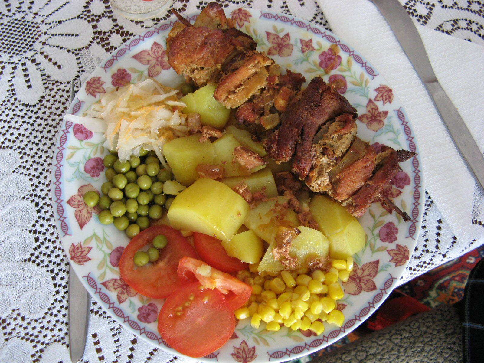 Pork skewer with potatoes and garnish.